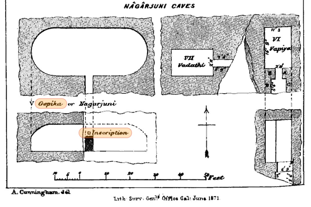 Gopika, Vadathika and Vapiyaka are three caves in Nagarjuni Hill east of the four caves in Barabar Hill. These are dated to the 3rd century BCE. Inscriptions from Mauryan era suggest these were for the Ajivikas tradition. They became extinct and abandoned it. Later Buddhists used it and added inscriptions. In 5th to 6th century Hindus started using it and added their own inscriptions. The inscription of the Gopika cave highlighted in this drawing (over the cave entrance) is a Pali / Brahmi script inscription of Dasaratha Maurya dating to the 3rd century BCE. The Sanskrit inscription, a different and later inscription (6th century CE), is located inside the entrance corridor, on the left wall. This is a photograph of a personal copy of Alexander Cunningham's Archaeological Survey Report 1861-1862 (pages 44-45, Plate XIX). The publication date of this hand sketch-drawing in the 19th-century makes the work qualify for the PD-Art-100-70 guidelines. Any rights I have, I herewith donate to wikimedia under Creative Commons 4.0 license.